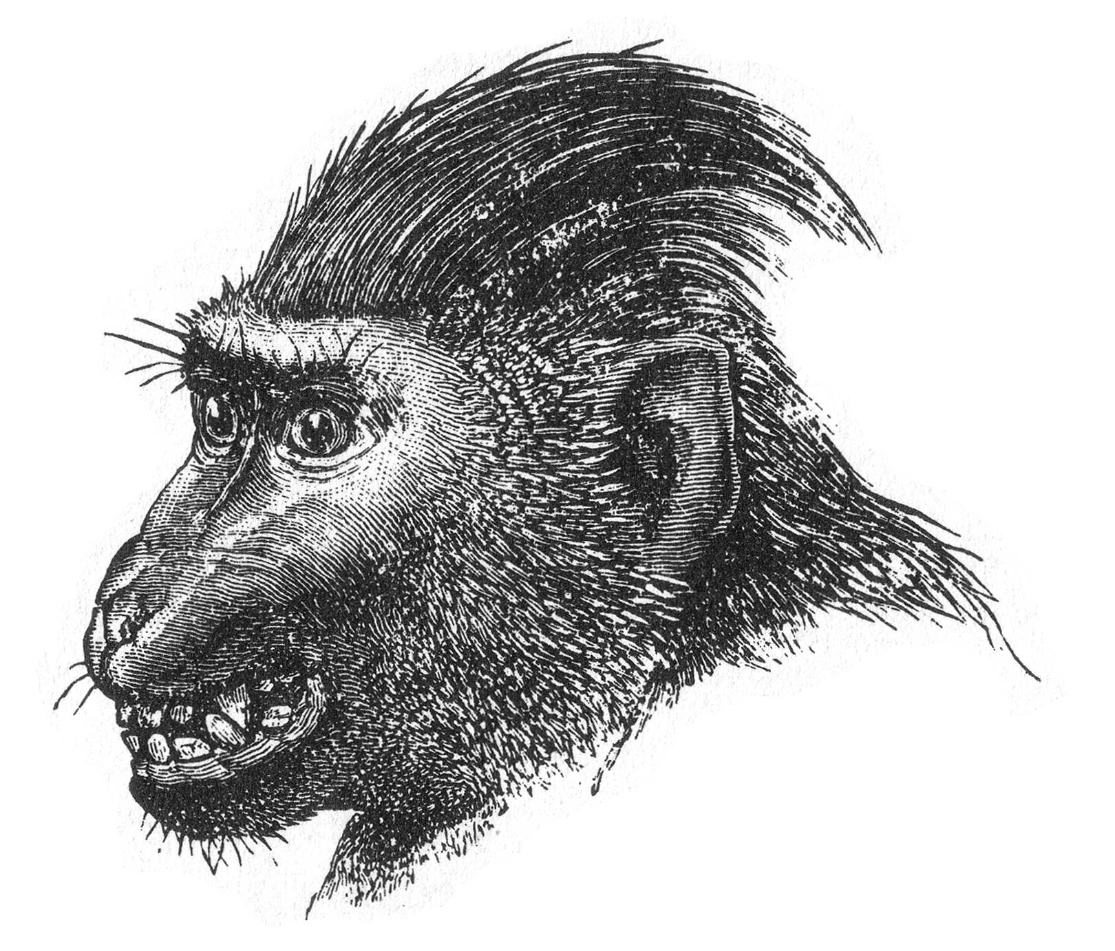 Figure 17 from Charles Darwin's The Expression of the Emotions in Man and Animals. Caption reads "FIG. 17.—The same, when pleased by being caressed." See figure 16 for by the same author for context. Note that the species is now known as Macaca nigra (formerly Cynopithecus niger).